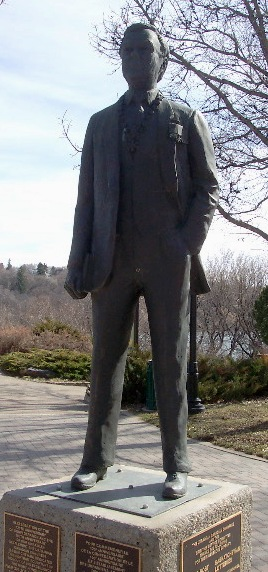 Statue of Ramon Hnatyshyn, Saskatoon.